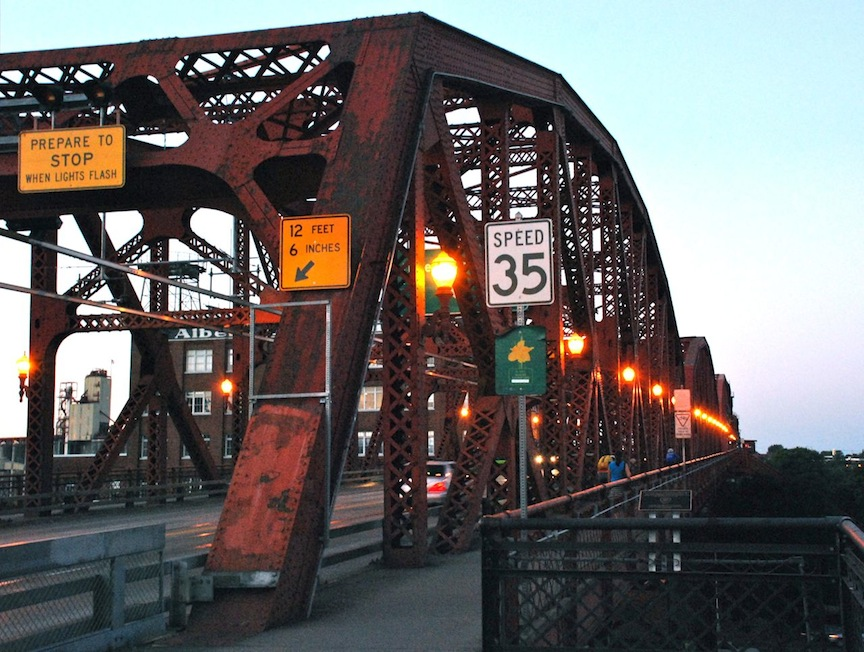 Looking northeast along the south (or southeast) sidewalk on the Broadway Bridge, in Portland, Oregon, at dusk.